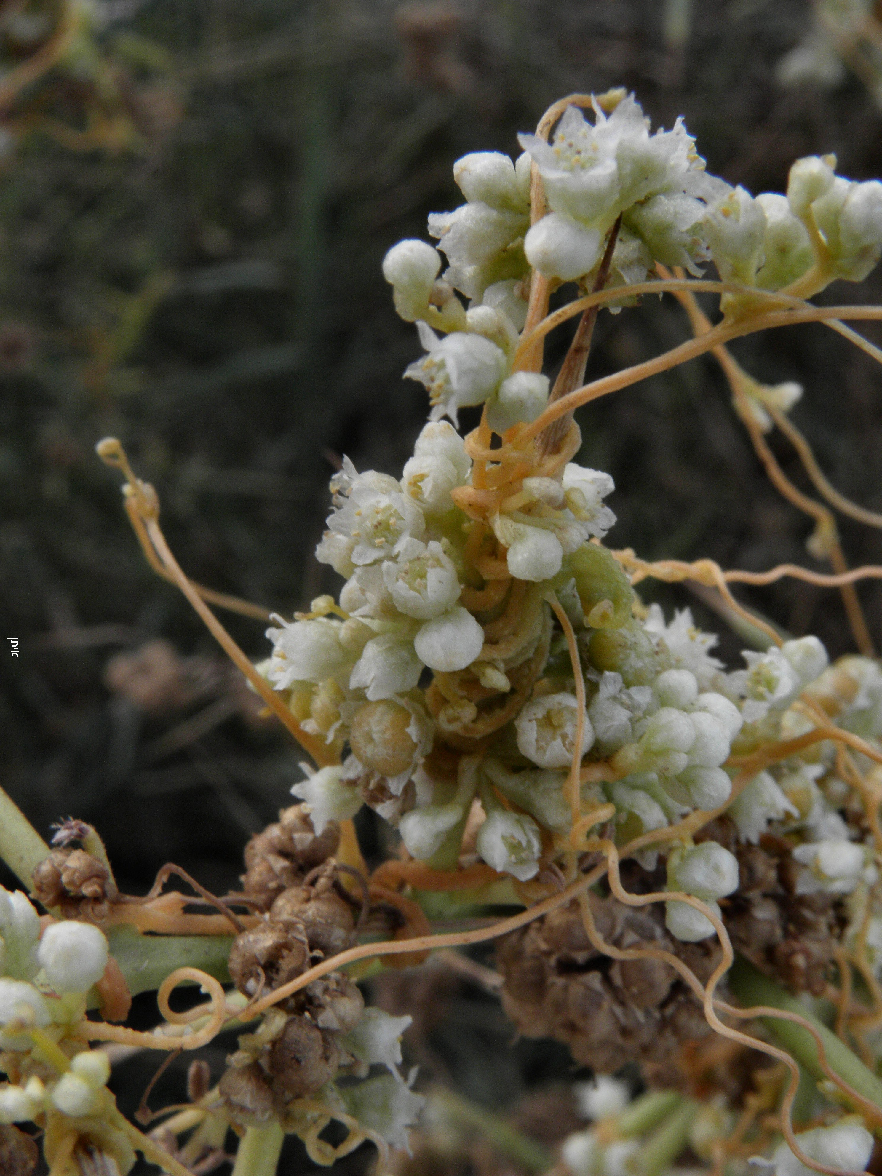 Cuscuta campestris - flowers and fruits כשות השדה - פרחים ופרות